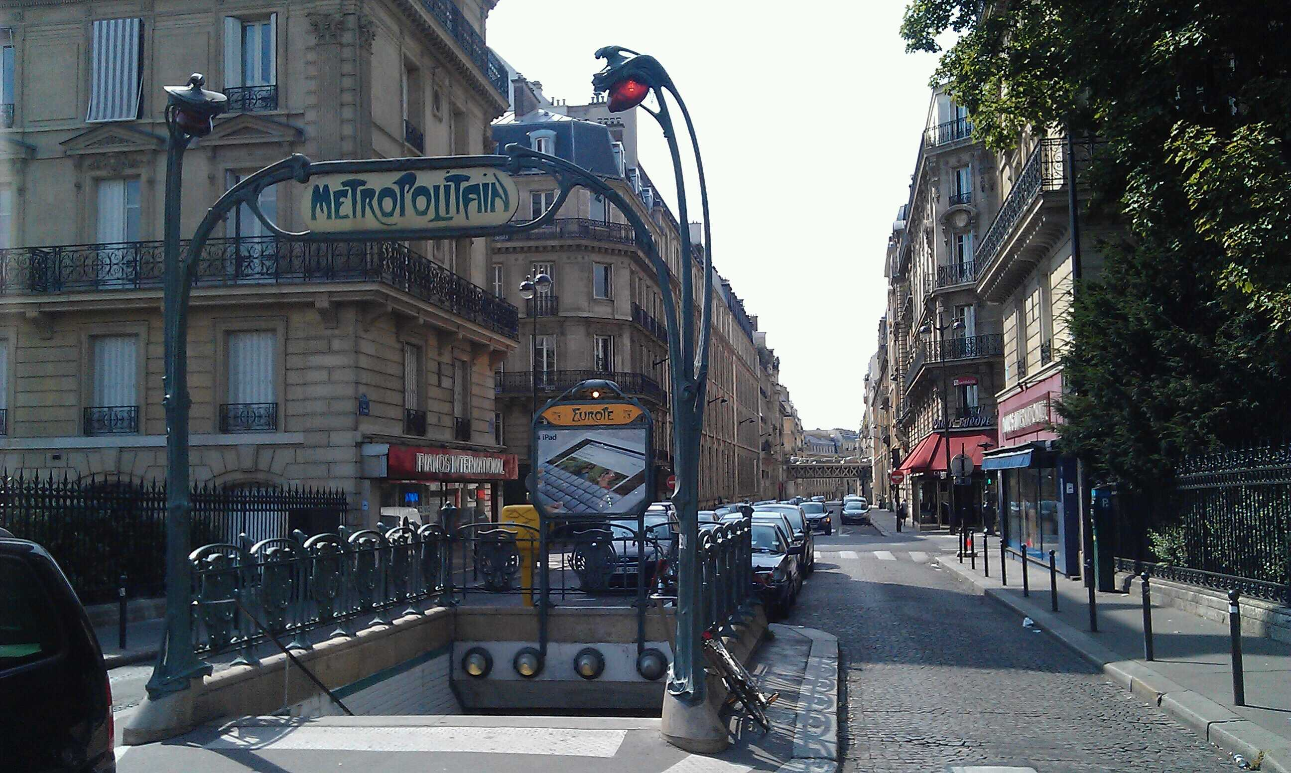 Entrance to Paris Métro . This photo was uploaded with Wiki Loves Monuments mobile 1.2.1 (Android).